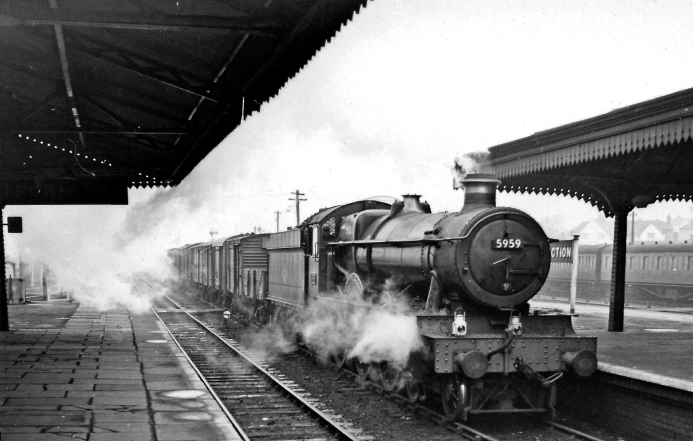 Up freight passing Stourbridge Junction station. View northward, towards Dudley and Wolverhampton, also Old Hill and Birmingham (Snow Hill); ex-GWR Worcester - Wolverhampton main line and main branch Stourbridge Junction - Birmingham Snow Hill. The Class C freight is headed by 4-6-0 No. 5959 'Mawley Hall' (built 1/36, withdrawn 9/62).